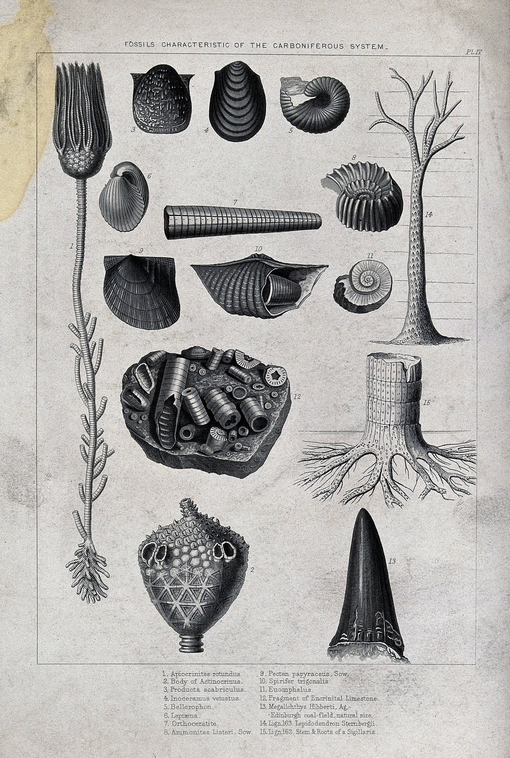 A variety of fossils characteristic of the carboniferous system. Line block. Iconographic Collections